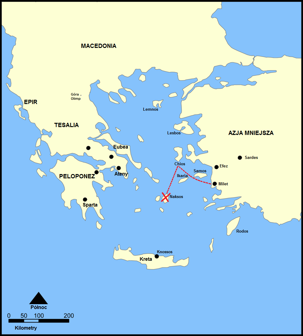 Siege of Naxos (499 BC)